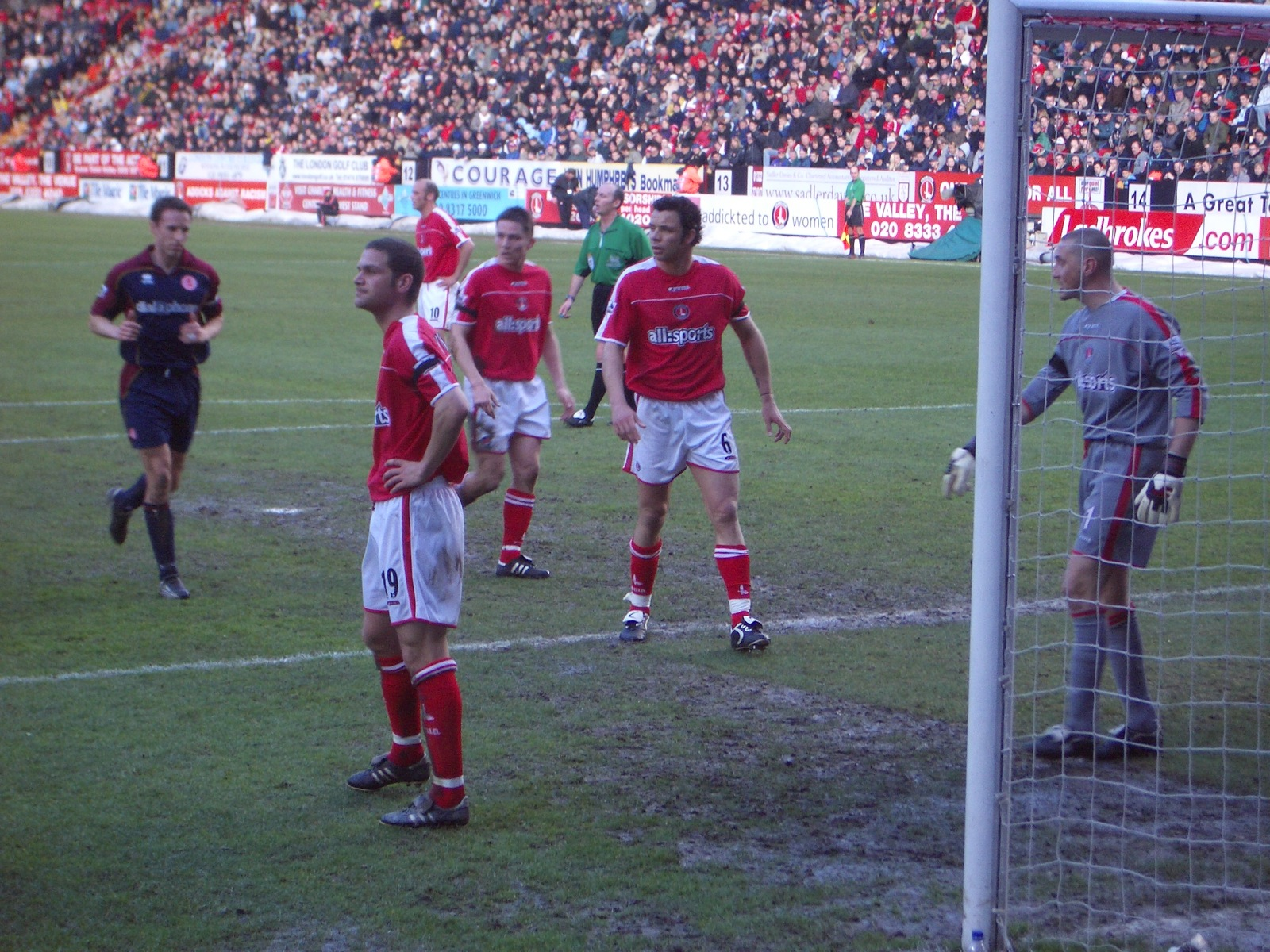 Old photos